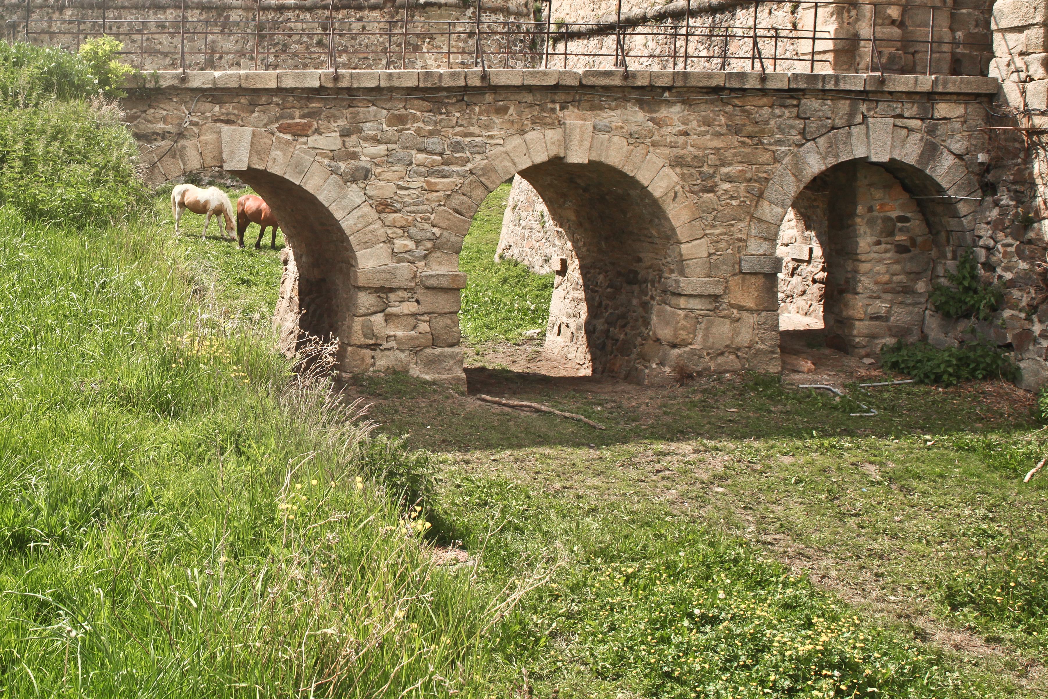 Citadel of Mont-Louis, the bridge, France .